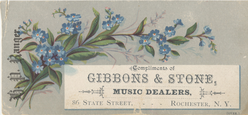 Persistent URL: Subject (TGM): Flowers; Pianos; Organs; Musical instruments; Musical instrument industry; Music publishing industry; Message: Keywords